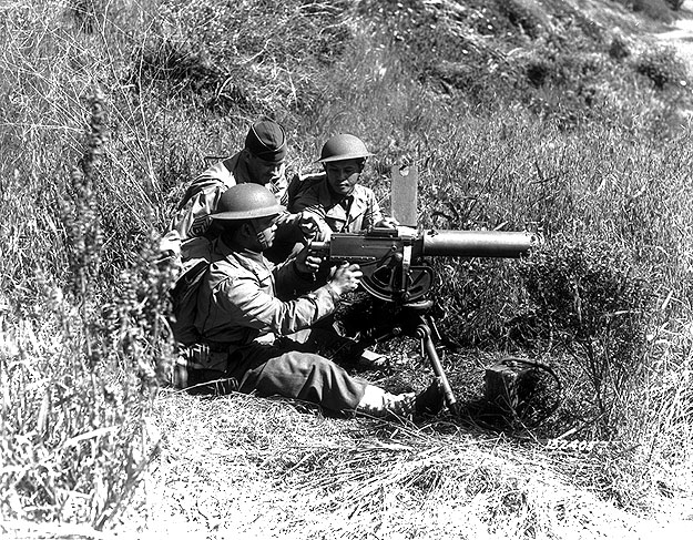 First Filipino Infantry Regiment Training--Camp San Luis Obispo, CA.